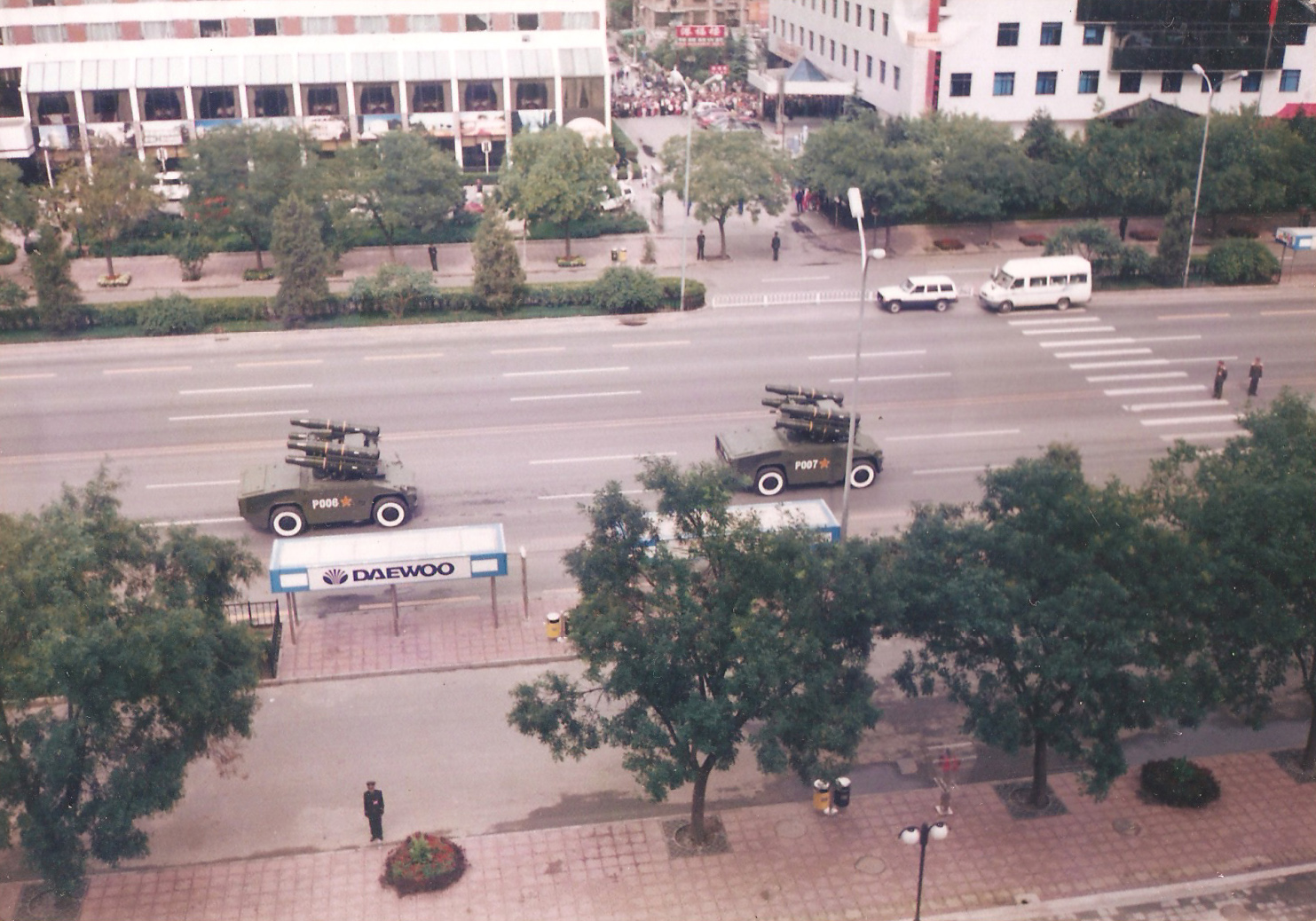 50th anniversary of the People's Republic of China, taken in my apartment, opposite of Jinglun hotel, when I was 5 years old.